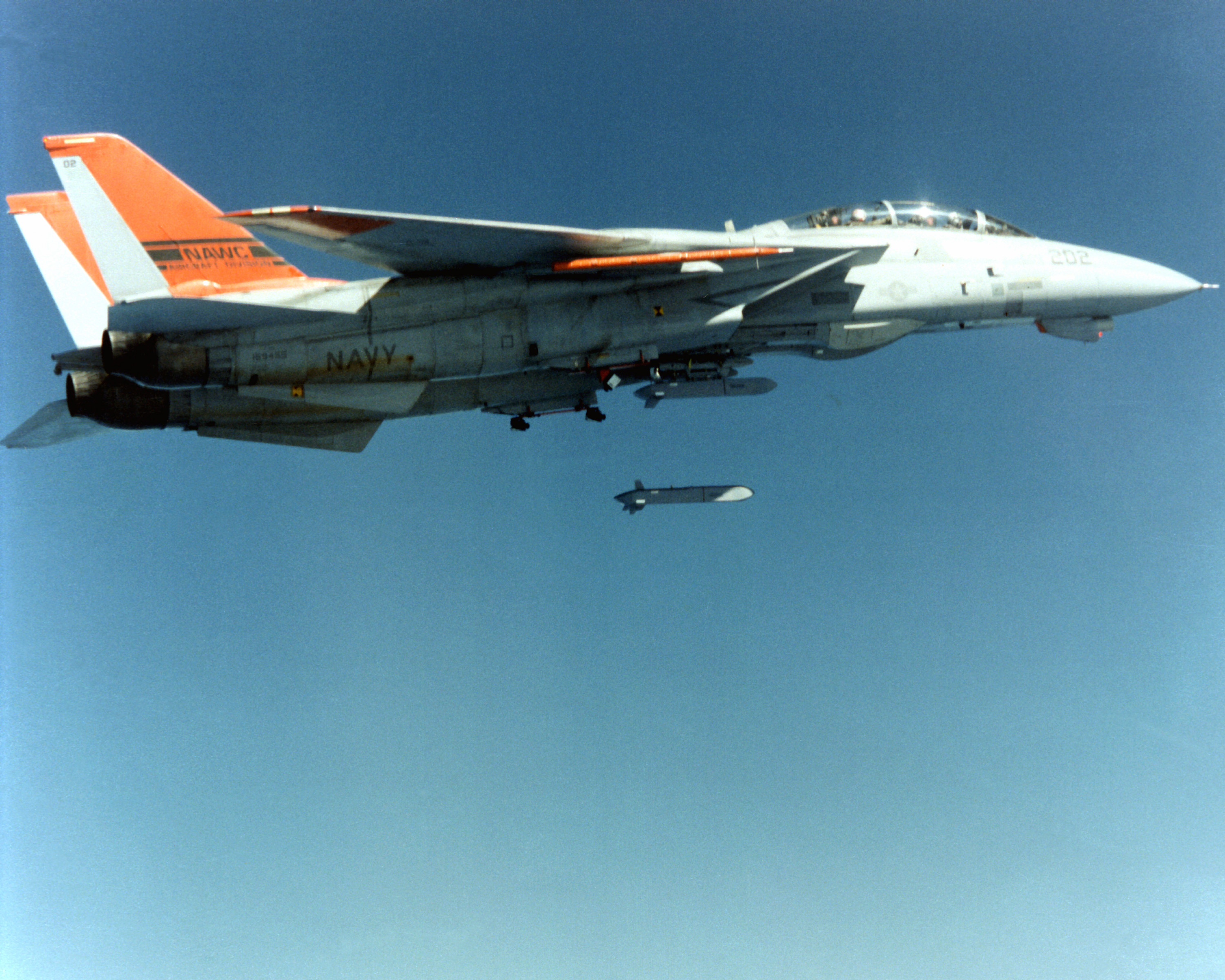 An F-14A/B Tomcat aircraft assigned to the Strike Aircraft Test Directorate of the Naval Air Warfare Center Aircraft Division Patuxent River is shown conducting a separation test of the Tactical Air Launched Decoy (TALD) in a continuing effort to expand the air-to-ground capabilities of the F-14 aircraft. The testing began last November and was completed on April 28, 1994. This test flight is being flown by Lt. Hal Murdock, and Lt. Robert Curbeam, both of the Strike Ordnance Department.Location: NAVAL AIR STATION PATUXENT RIVER, MARYLAND (MD) UNITED STATES OF AMERICA (USA)